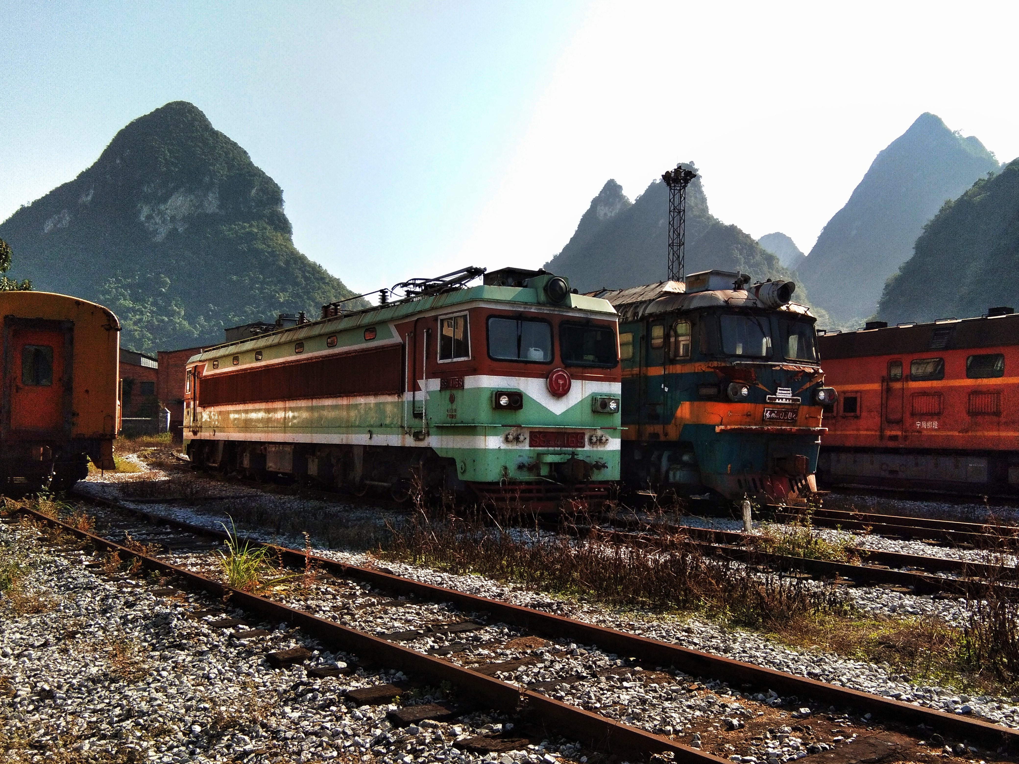 SS3-4169 & DF7D-0002 are stored in Jinchengjiang Locomotive Area, Liuzhou Locomotive Depot, 29th October, 2017. 中文（中国大陆）: 4169号韶山3型电力机车与0002号东风7D型内燃机车停放于南宁铁路局柳州机务段金城江机务区内。而在2017年9月，南宁铁路局通过中国铁路采购网在网上发布了报废机车招标公告，将两台已经拆除机车大线、冷却单节、电气柜接线柱、接触器等部件的东风7D型内燃机车按68万元人民币底价出售。